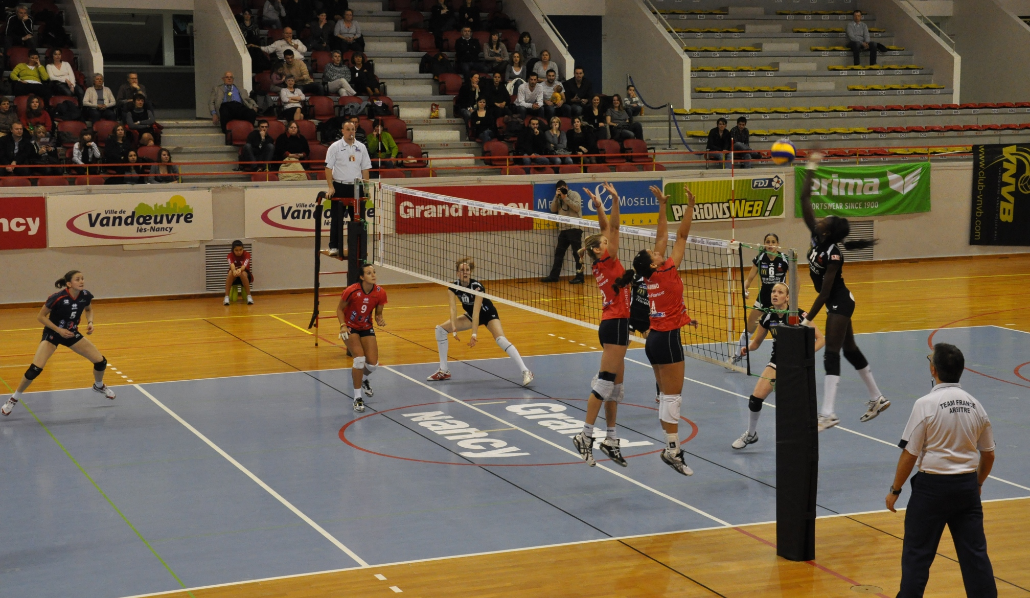 Volleyball Smash, Vandoeuvre-les-Nancy